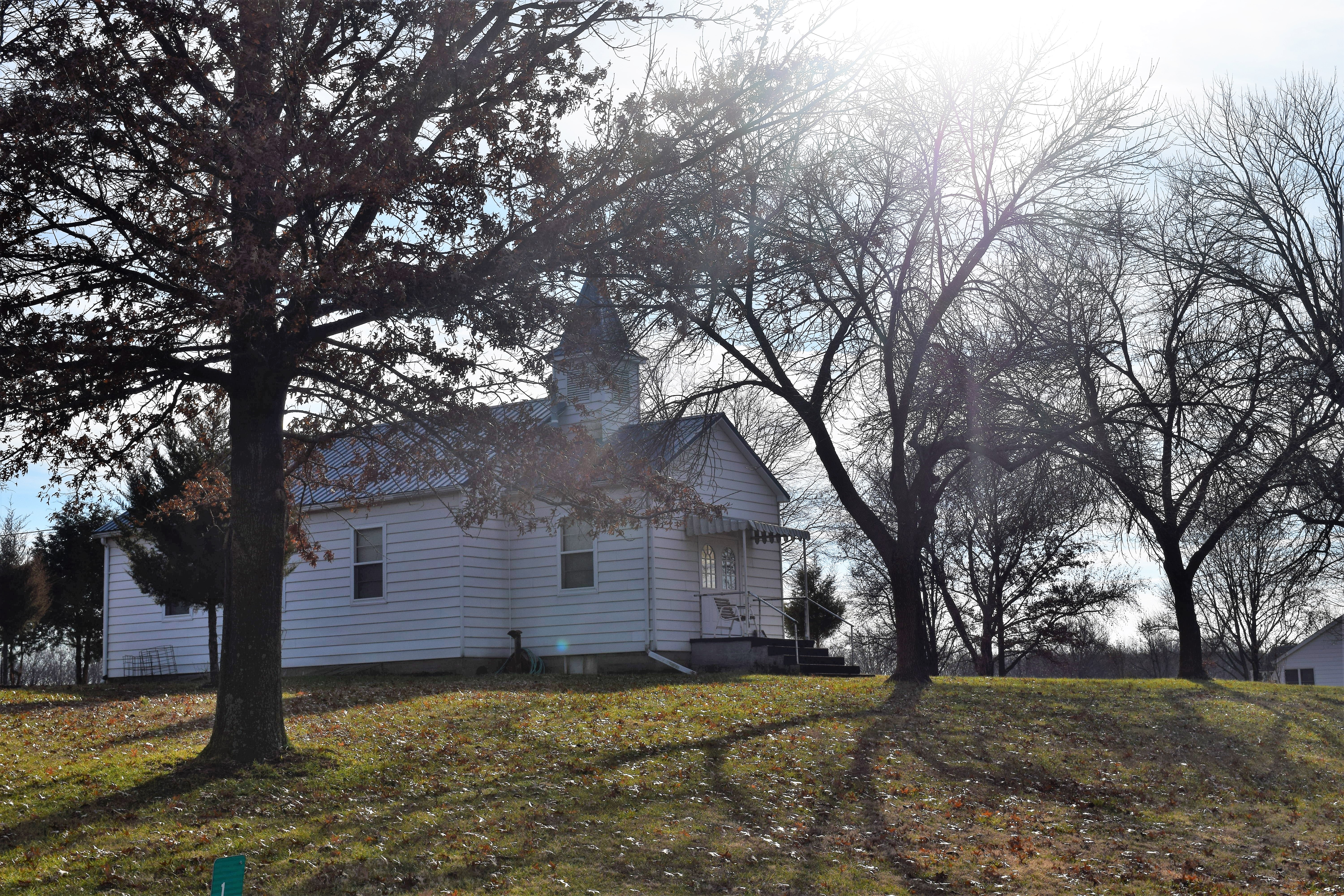 A church building in Barnhill, Illinois.